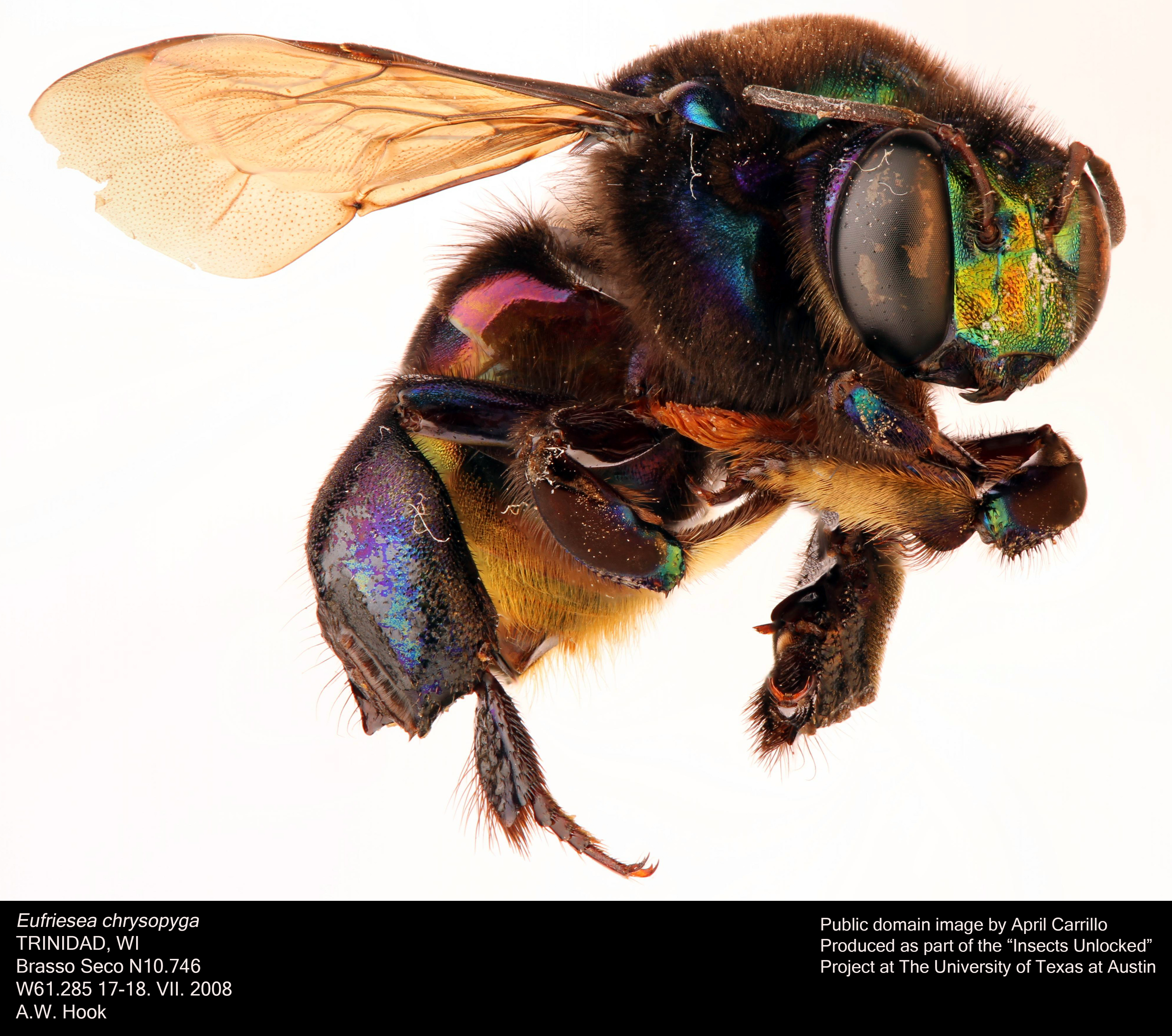 Eufriesea chrysopyga This image was created as part of the Insects Unlocked project at the University of Texas at Austin. Based in the UT insect collection at Brackenridge Field Laboratory, part of the Department of Integrative Biology. Do not crop: This image is used on one or more sister projects, where its entire contents are wanted. If you crop it, please save the new image separately, and do not overwrite this